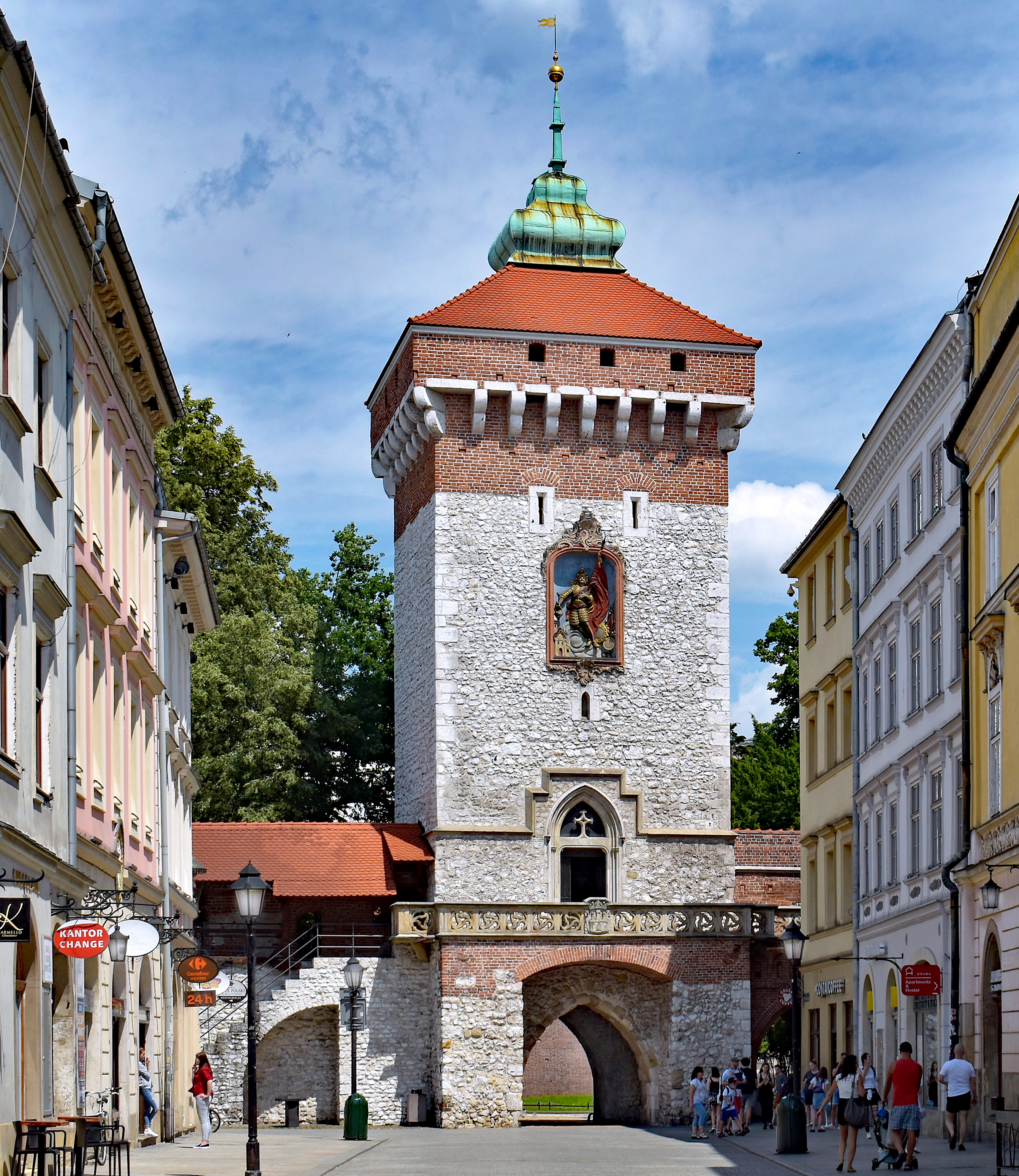 St. Florian's Gate, Pijarska street, Old Town, Krakow, Poland